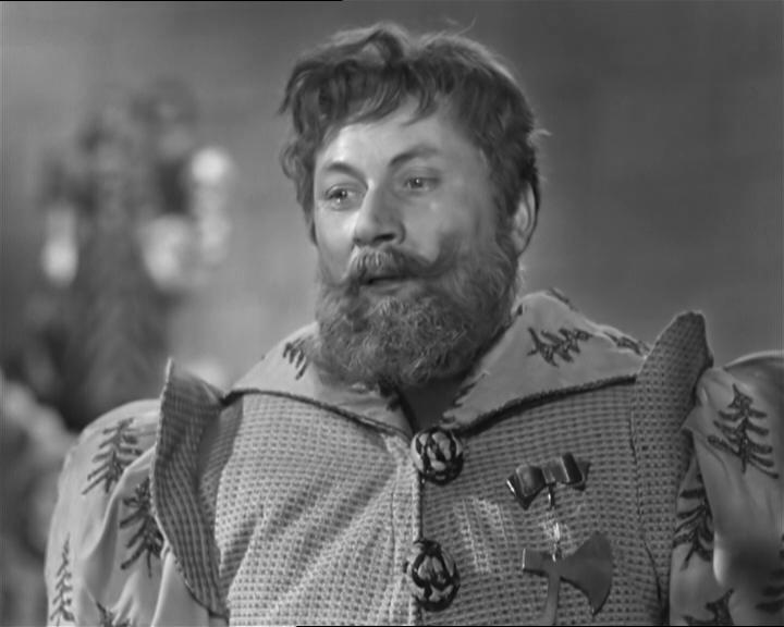 Vasily Merkuryev as Forester in Cinderella (1947)